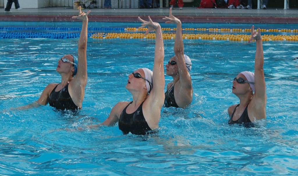 Russian world champion synchronized swimming team training for the European championship in Gran Canaria.